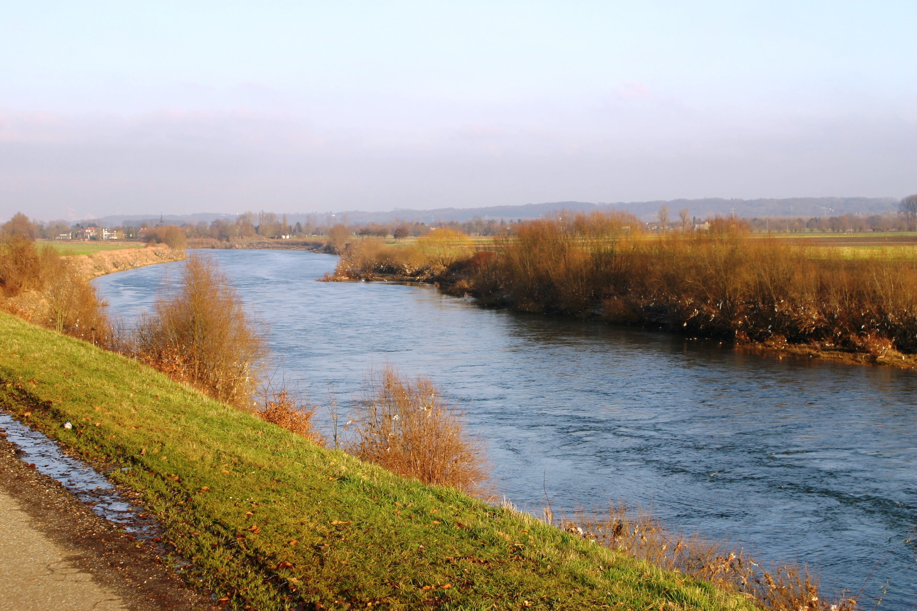 Meuse River near Heppeneert